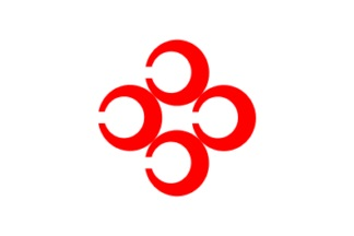 Flag of Yokoze Saitama